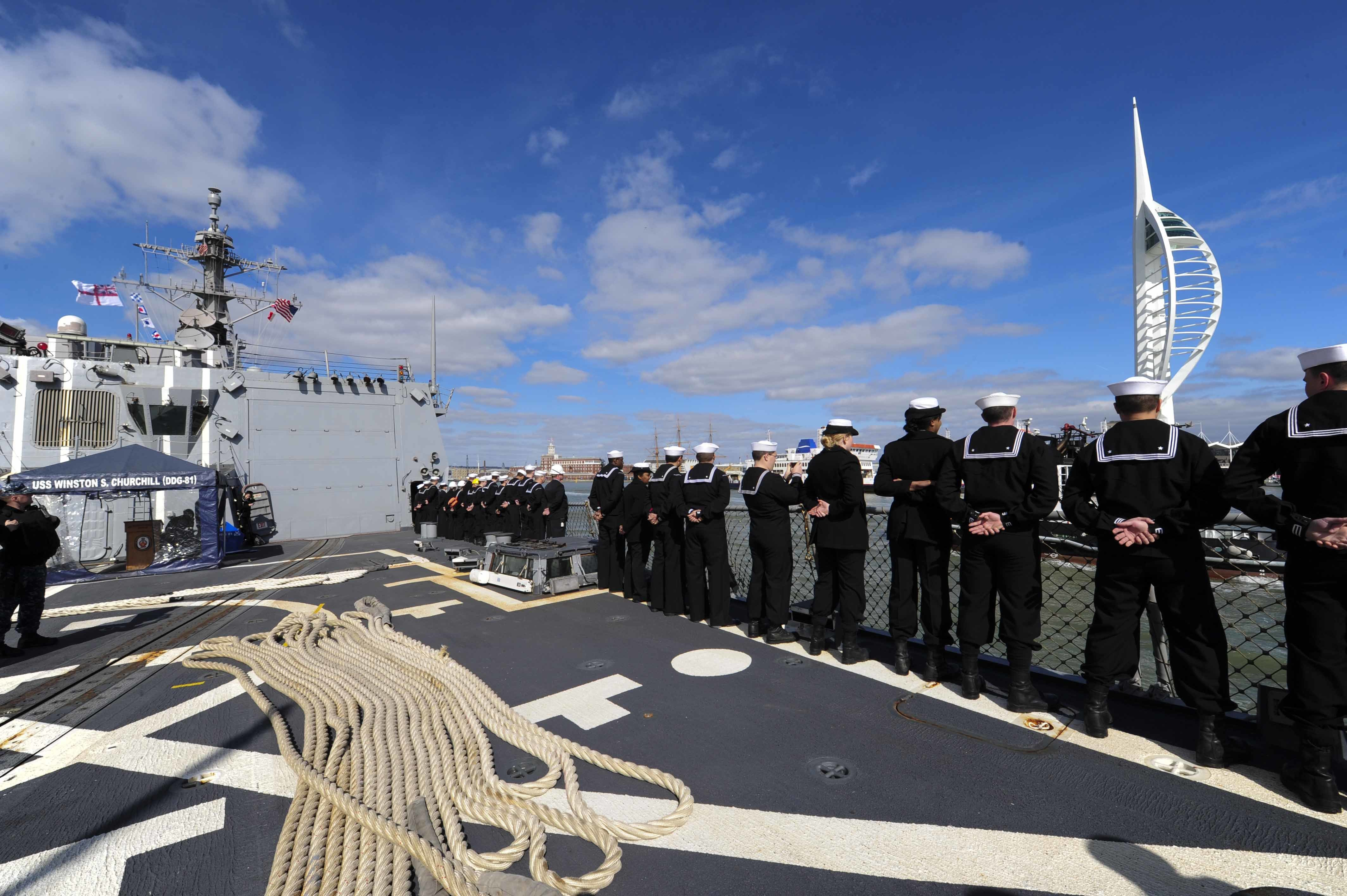 150322-N-BD333-002 PORTSMOUTH, England – Sailors aboard the Arleigh-Burke class guided missile destroyer USS Winston S. Churchill man the rails as the ship pulls into port in Portsmouth, England, March 22, 2015. Churchill, home-ported in Norfolk, is conducting naval operations in the U.S. 6th Fleet area of operations in support of U.S. national security interests in Europe.